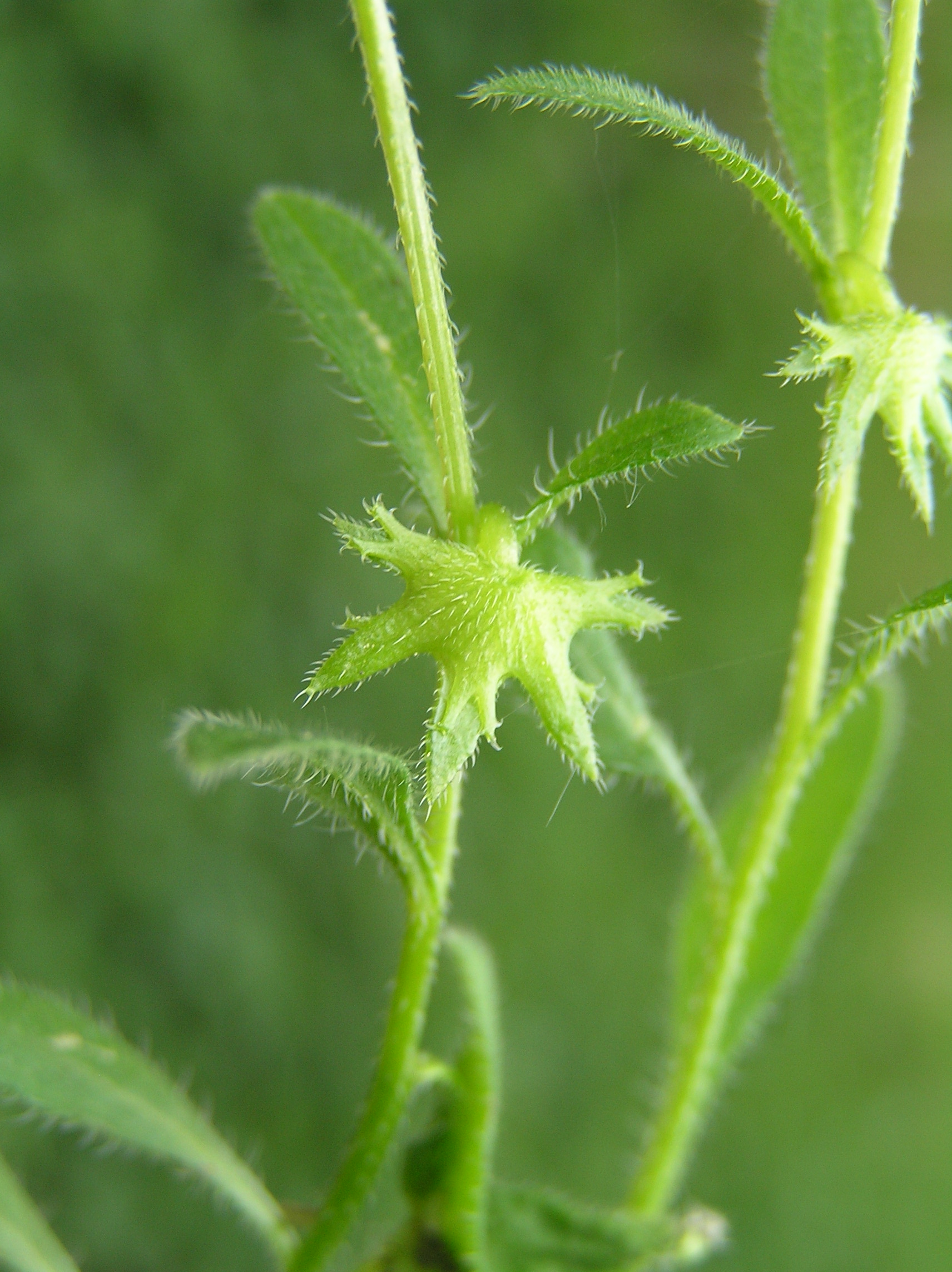 Asperugo procumbens, Brno-Chrlice, Southern Moravia, Czech Republic